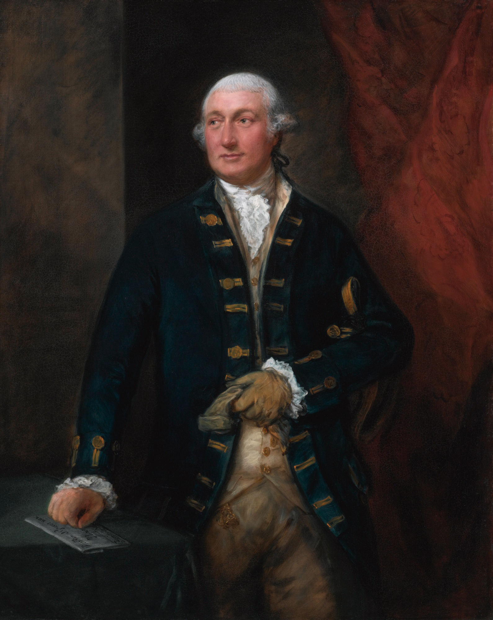 Admiral Lord Graves, 1st Baron Graves of Gravesend oil on canvas 127 x 101.6 cm inscribed b.l.: Rear Admiral Graves... / Plymo... / Admiralty...